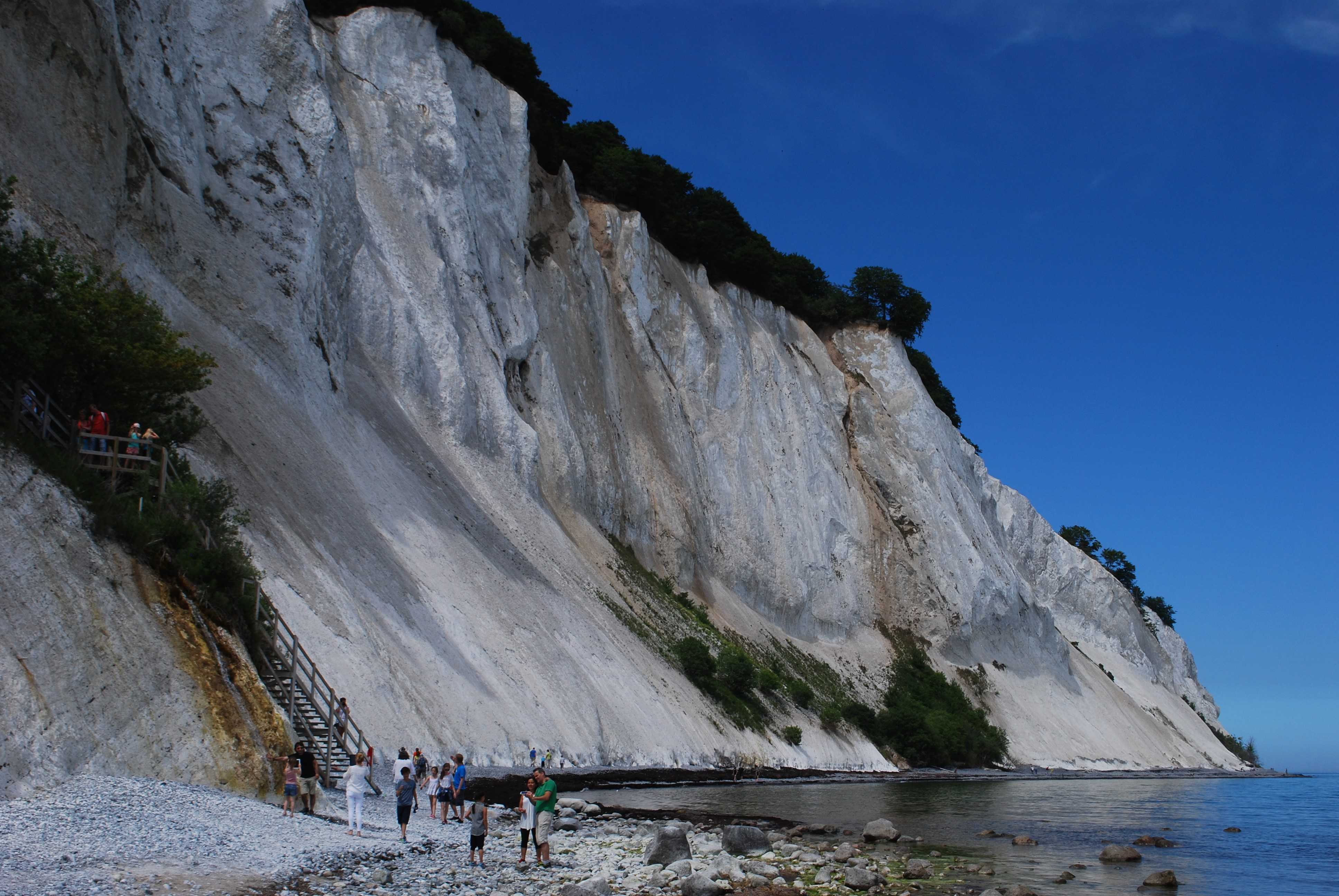 Møns Klint (